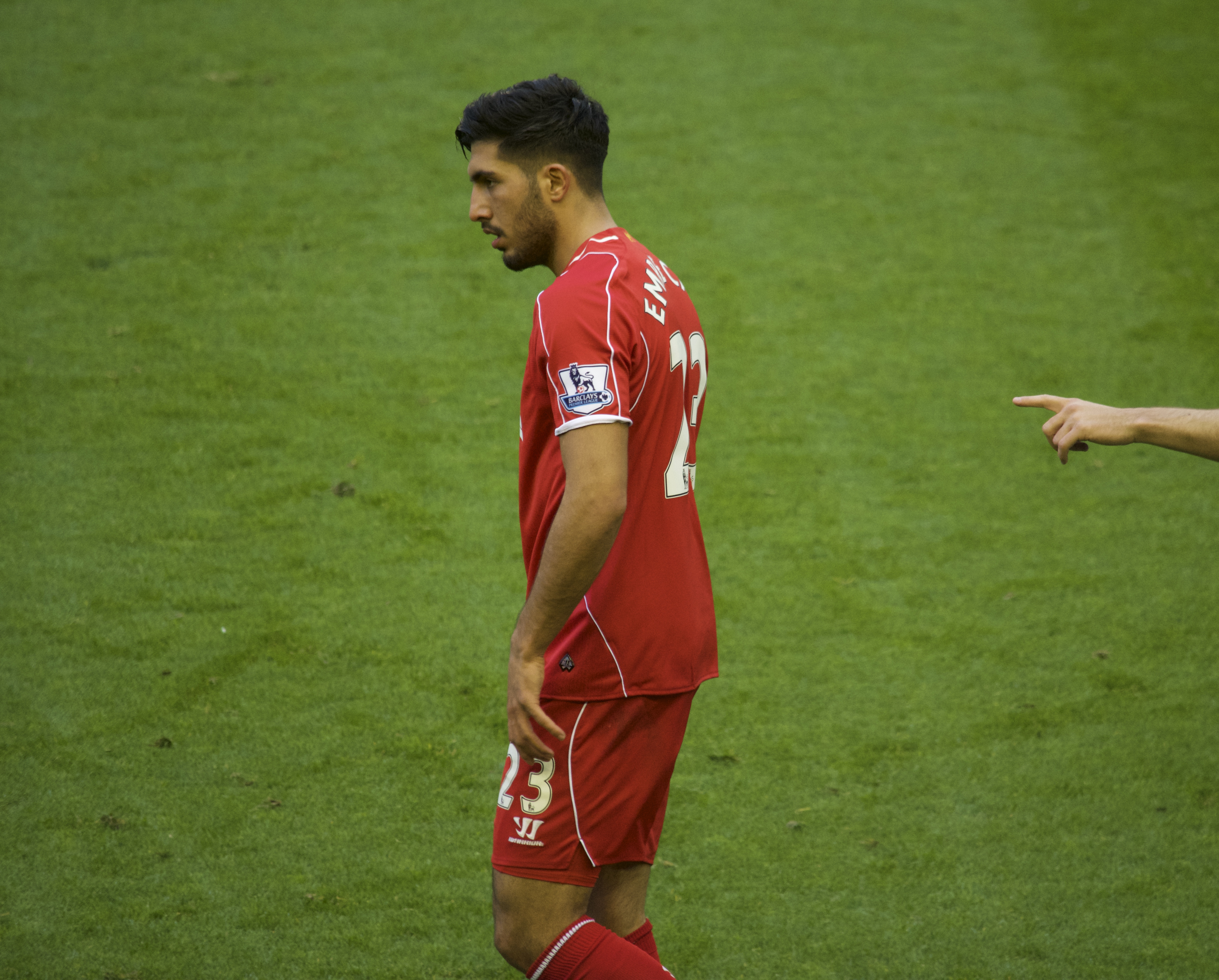 Liverpool v Hull City 25-10-14